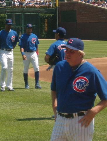 Description Pic of Batting practice DateAugust 2008 vs. PiratesSourceI created this work entirely by myself.AuthorWjmummert (KA-BOOOOM!!!!) 03:19, 15 August 2008 . . Wjmummert . . 365×480 (39 KB) Pic of Batting practice